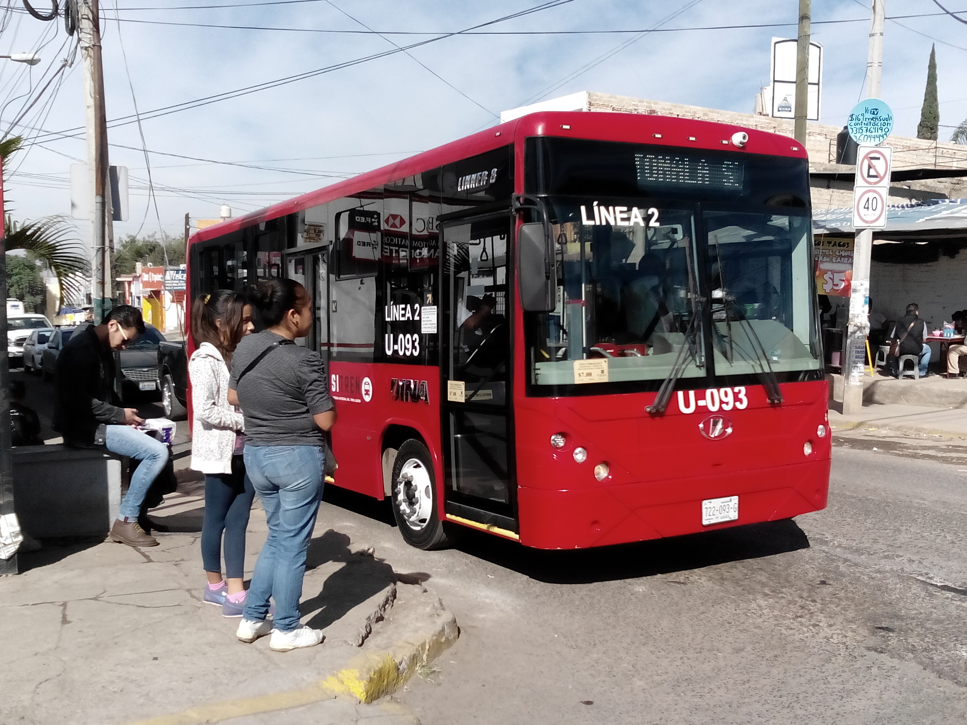 Guadalajara's Light Rail Bus Auxiliary Service